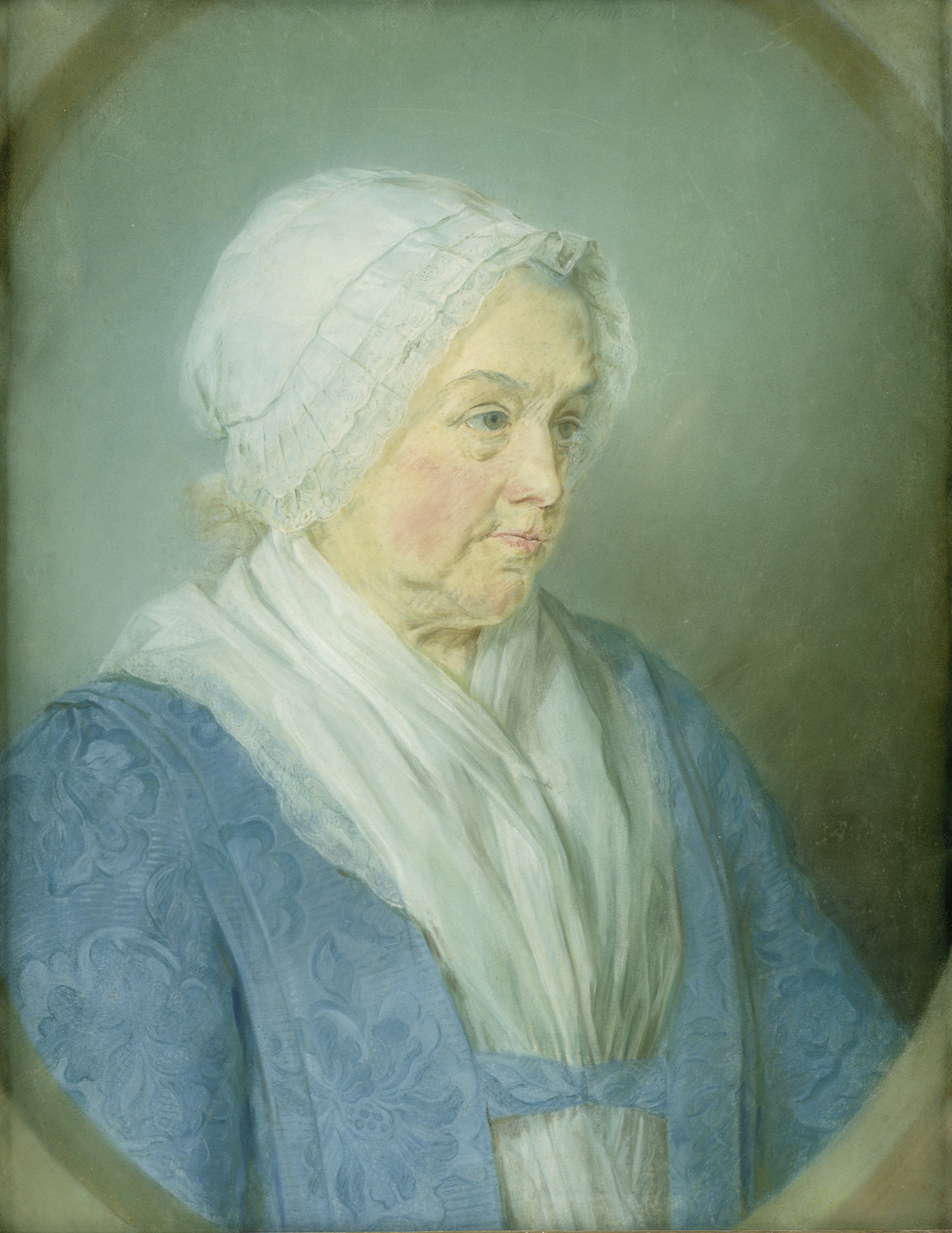 Sara Hinlopen, wife of Arent van der Waeyen (1685-1767), merchant and counsel to the town council of Amsterdam. Pendant of File:Jean Baptiste Perroneau 004.jpg